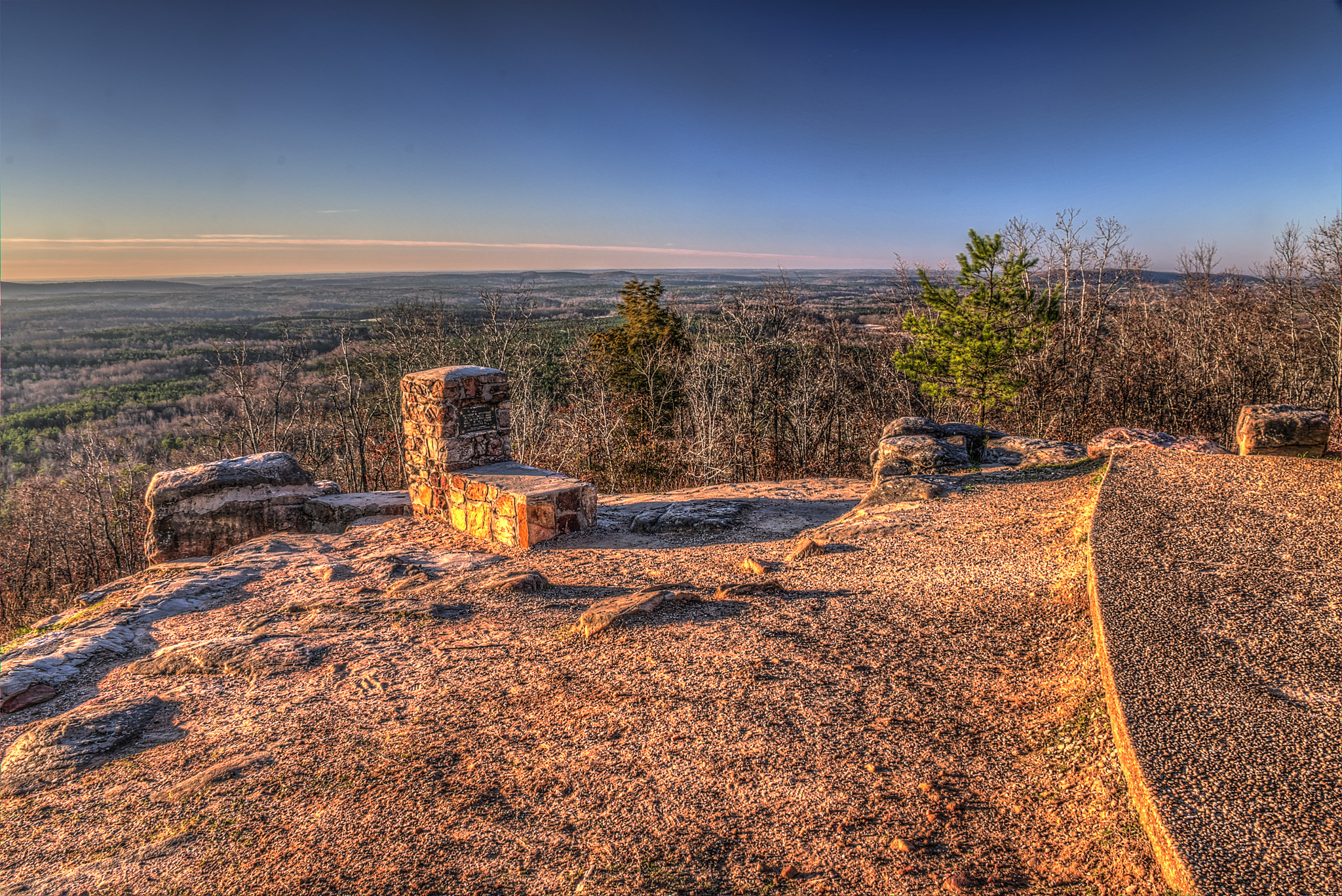 Dowdell Knob in FDR State Park, Georgia